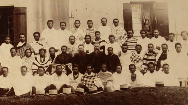 Fourth class at the Seminary for pastoral education at Masinandraina Madagascar 1893.